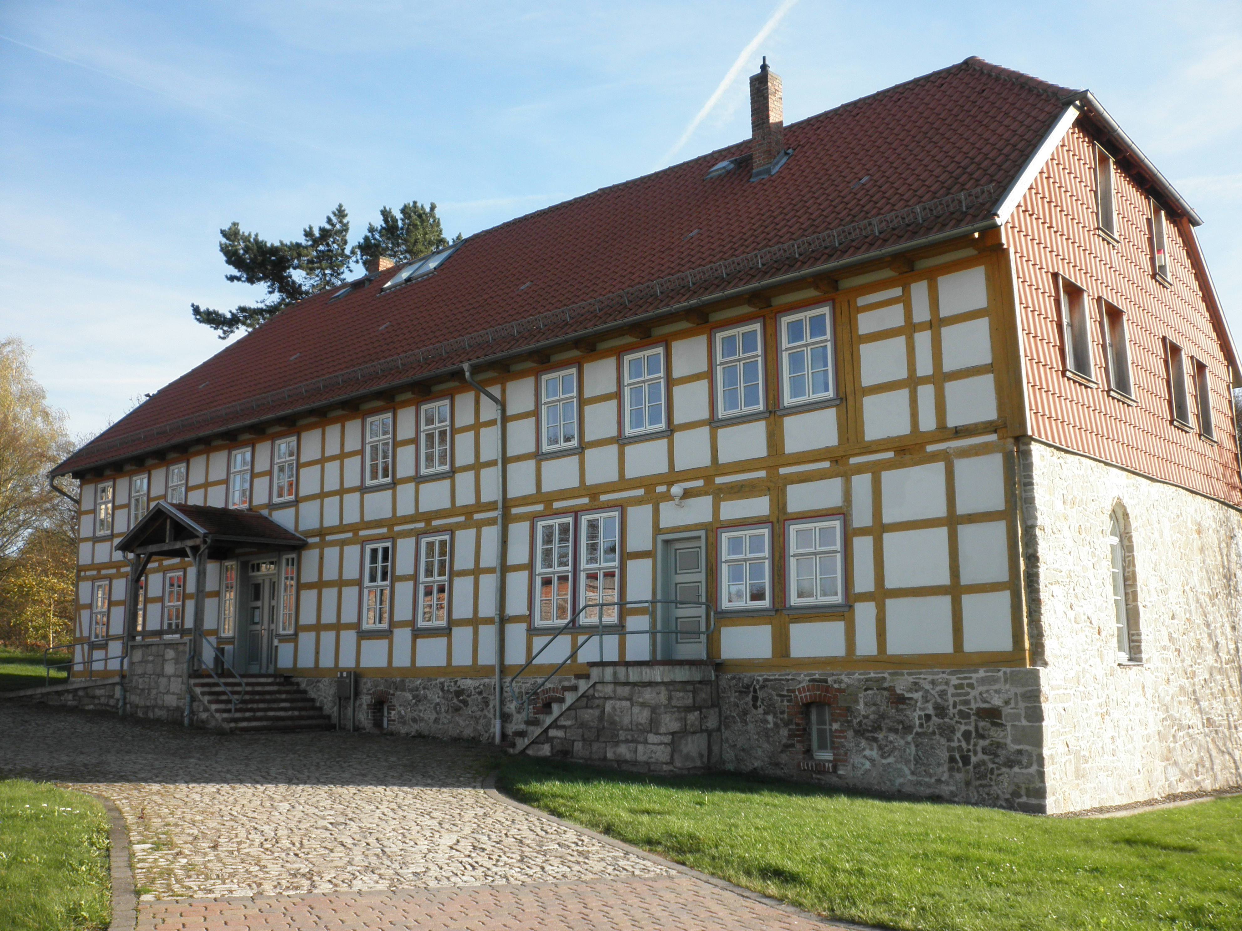 Manor House in Klettenberg (Hohenstein) in Thuringia